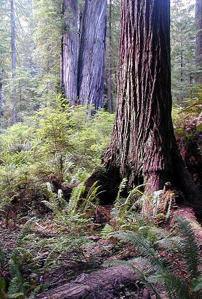 Sequoia sempervirens in Redwood National Park, California